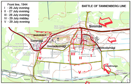 Map of the Battle of Tannenberg Line. The cross indicates the modern location of the war monument.